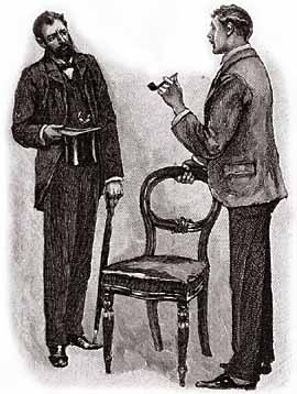 Arthur Conan Doyle, The Adventure of the Stockbroker's Clerk (1893), Illustration by Sidney Paget, in The Strand Magazine